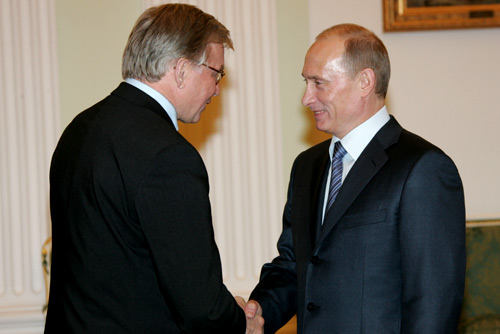 THE KREMLIN, MOSCOW. With President of the Council of Europe Parliamentary Assembly Rene van der Linden.